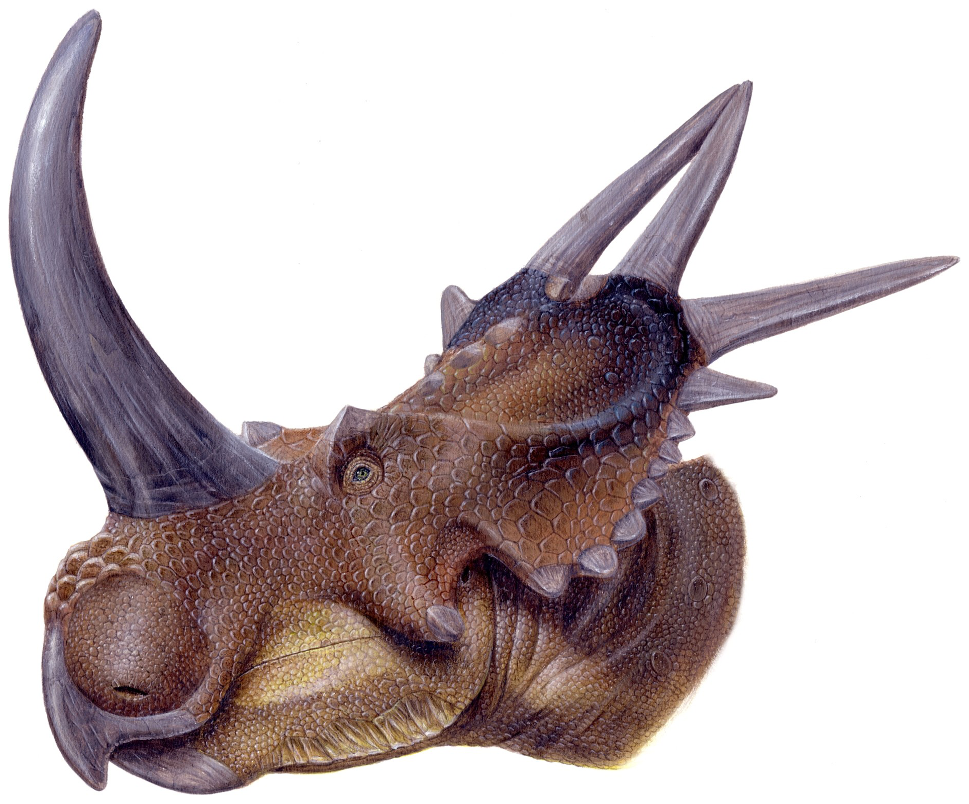 Life restoration of Rubeosaurus ovatus. Nasal and postorbital ornamentation based upon MOR 492, parietal ornamentation based upon USNM 11869.